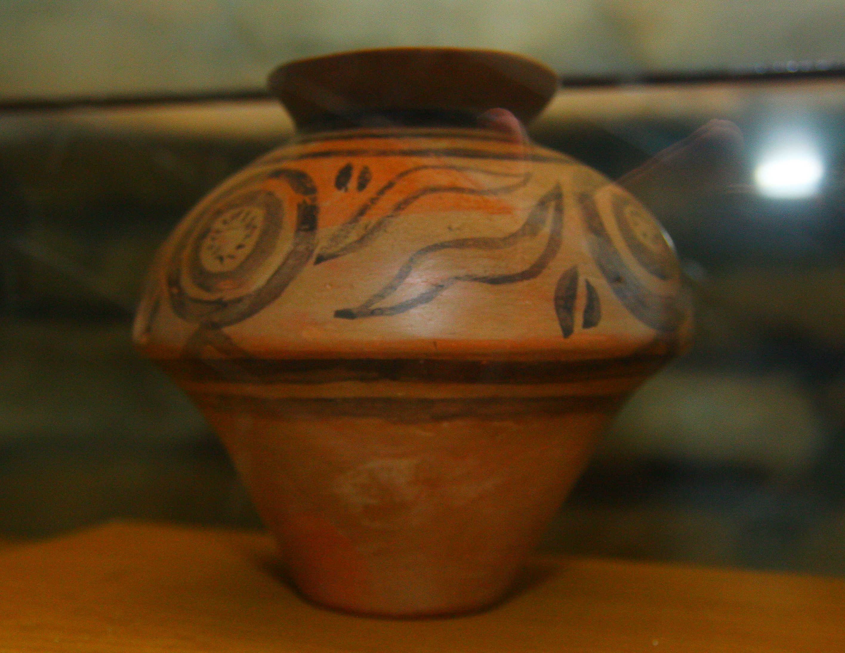 Cucuteni Culture Pottery